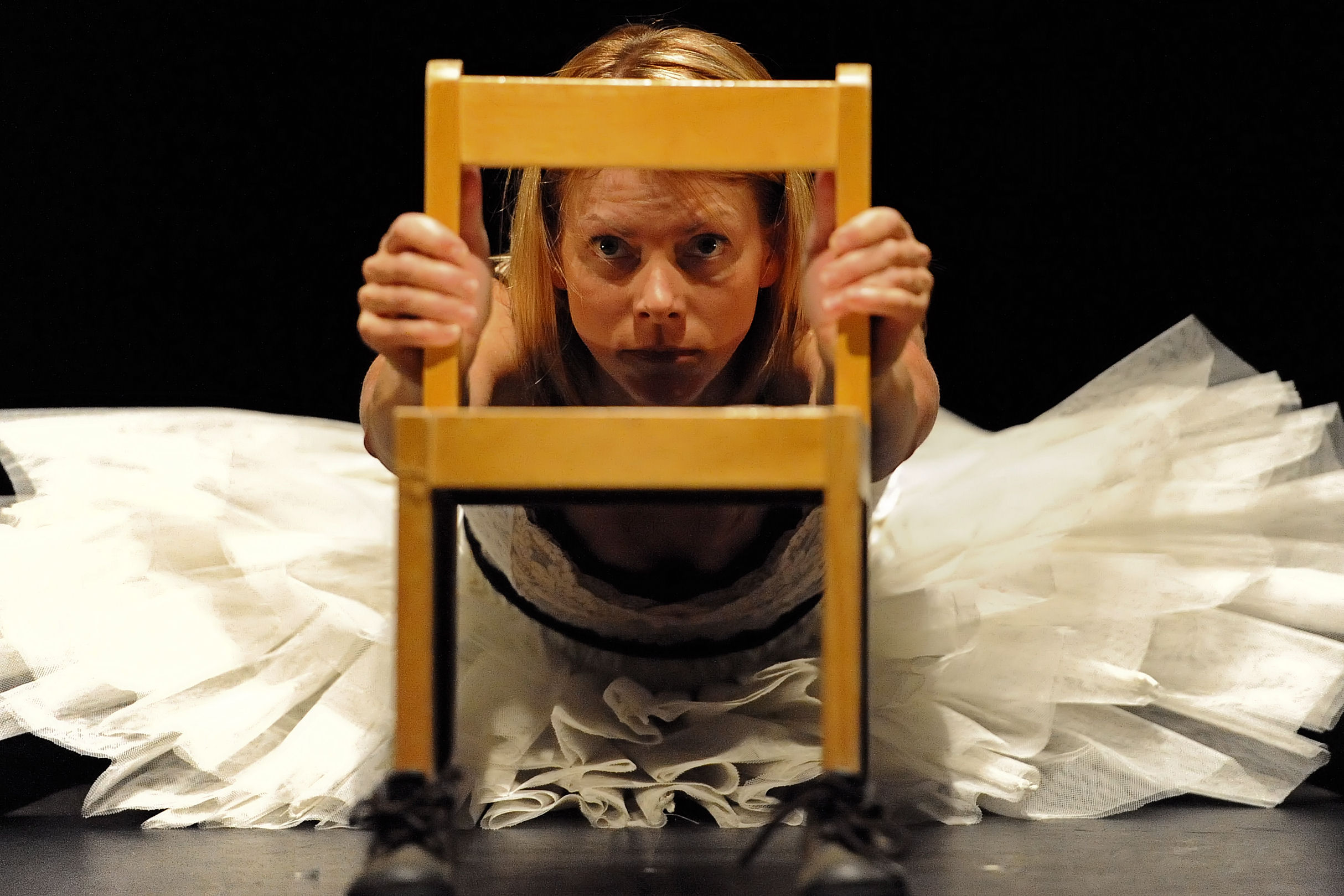 dancer from the performance of homeagain